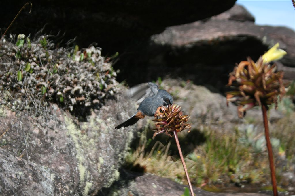 Greater flowerpiercer Diglossa major feeding on Orectanthe sceptrum flower, Mount Roraima, Venezuela